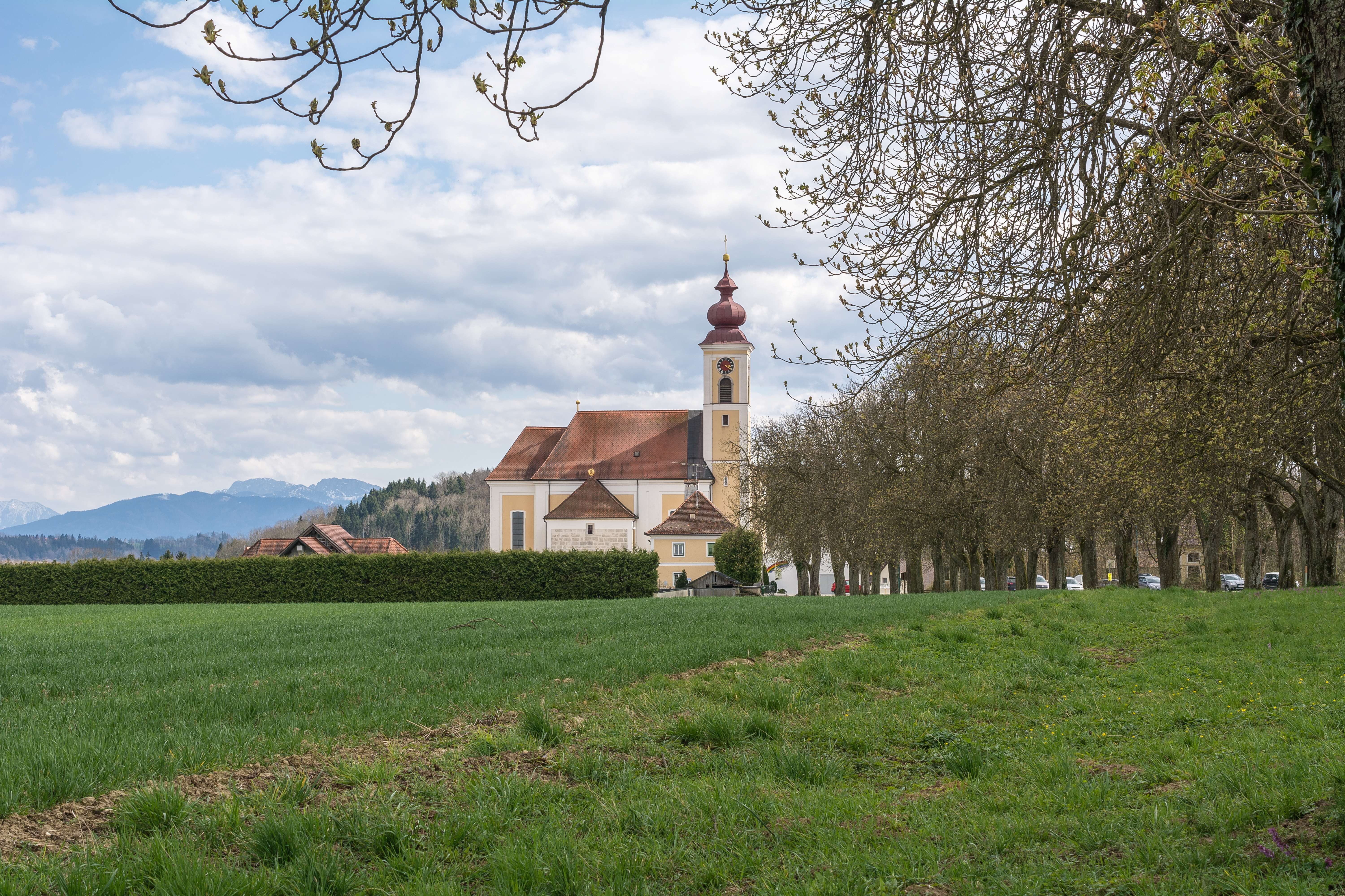 The erection of the parish church of Bad Wimsbach-Neydharting was started in 1688. The interior is of baroque style. Close to the church there is a double-row alley of horse chestnut trees, probably planted in 1893 and protected as natural monument of Upper Austria. This media shows the natural monument in Upper Austria with the ID nd058.